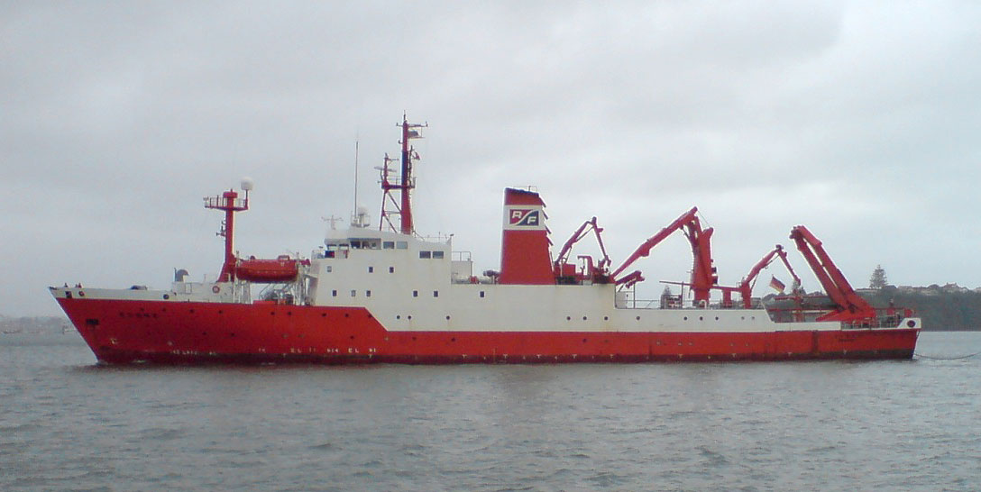 The German ship Sonne, a former fishing trawler now converted into a research vessel, registered in Bremen, Germany. Shown entering the Port of Auckland, Waitemata Harbour in Auckland, New Zealand, photographed from the ferry to Bayswater. IMO Number: 6909777 MMSI Number: 211216200 Callsign: DFCG Length: 98 m Beam: 14 m